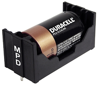 D Size Duracell Battery In Holder